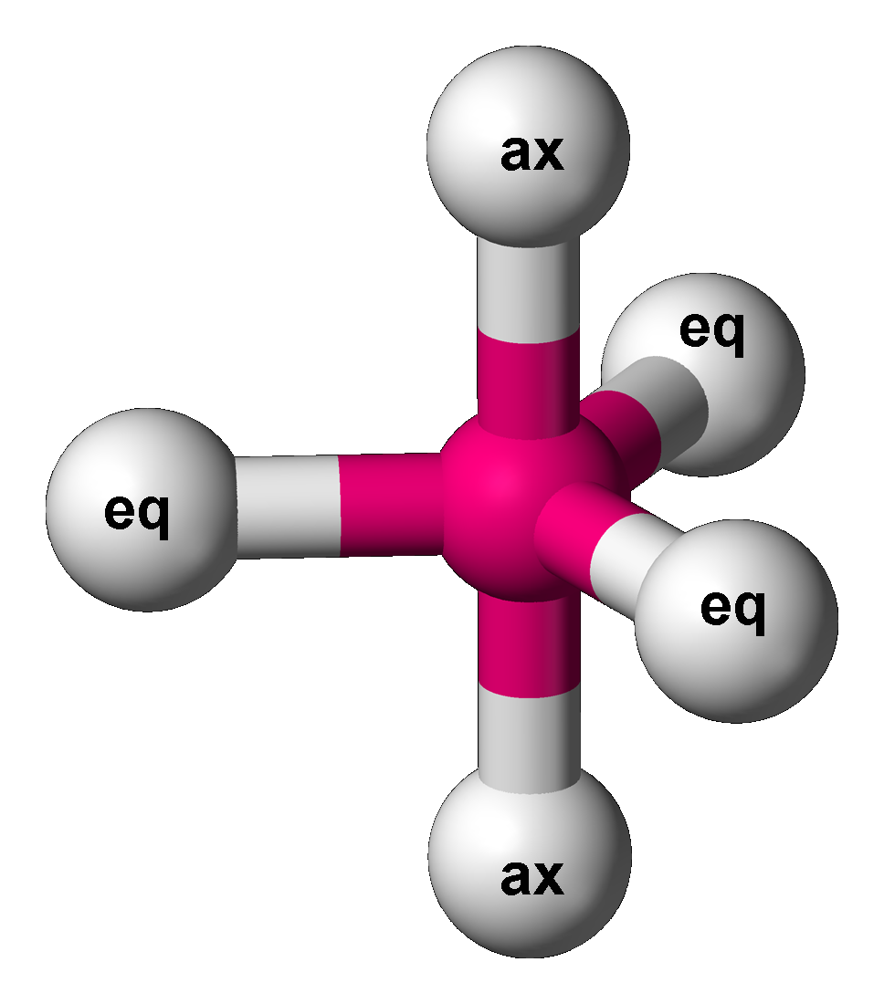 Trigonal bipyramidal molecular shape with axial and equatorial labels added